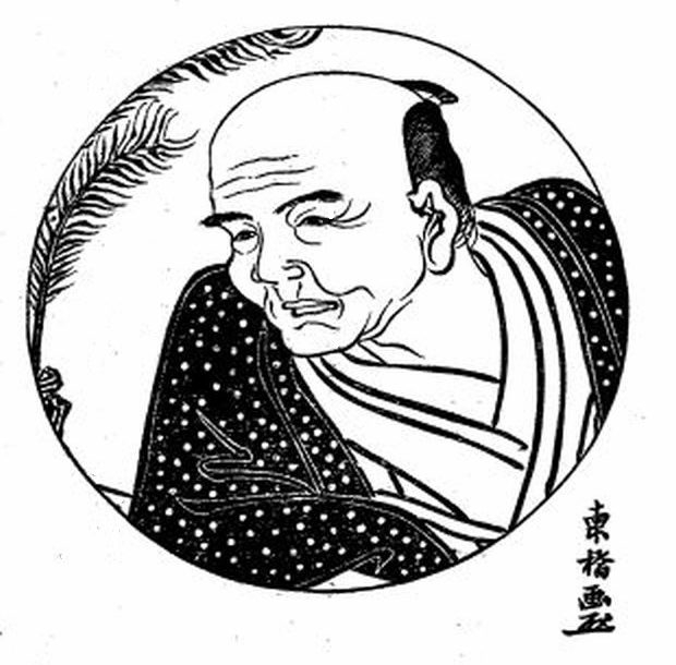 Senryu Karai